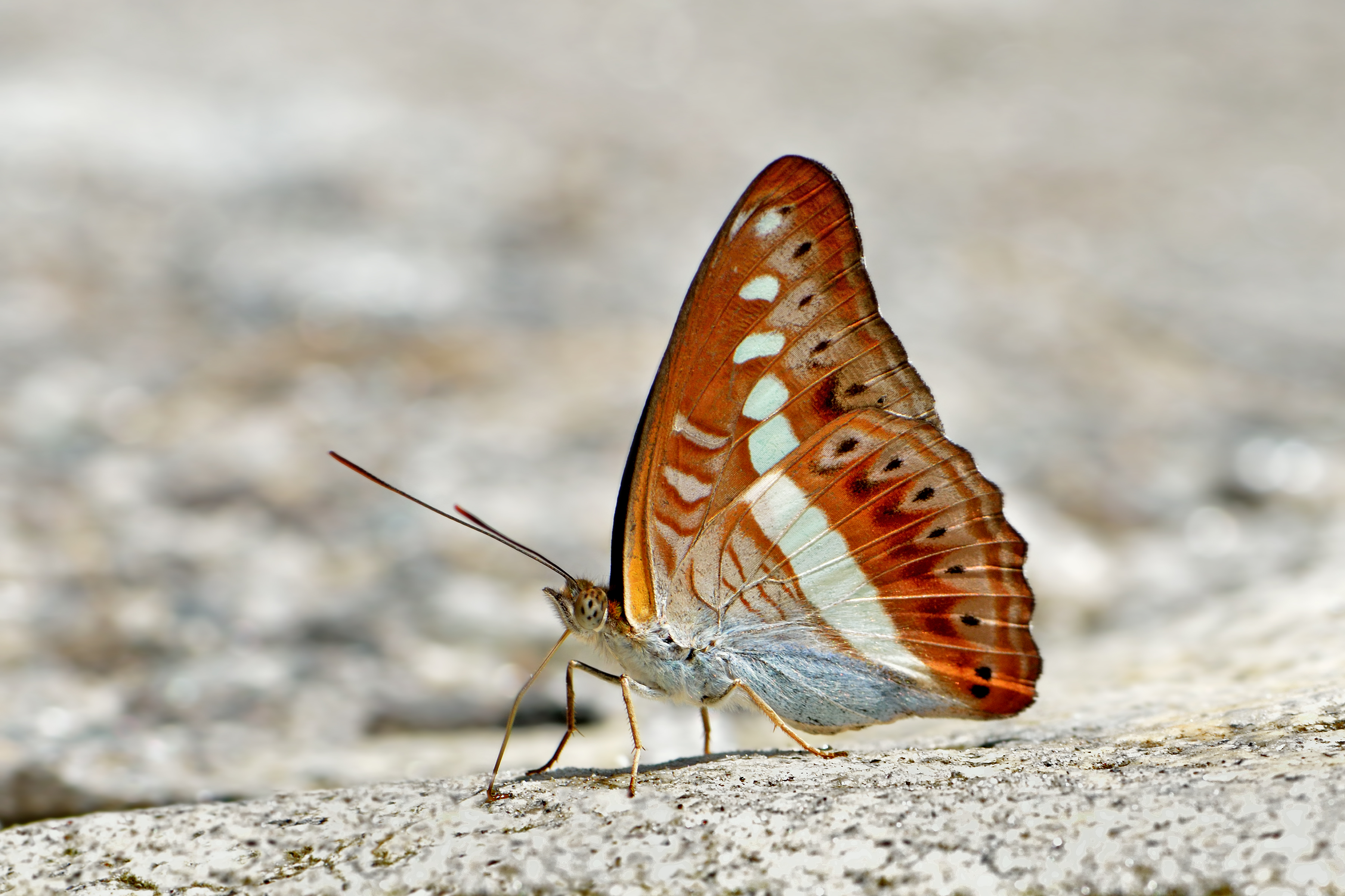 Close wing mud-puddling of Sumalia daraxa Doubleday, 1848 – Green Commodore .This specimen belongs to the sub-species Sumalia daraxa daraxa – Sylhet Green Commodore .অসমীয়া: পাখি বন্ধ অৱস্থাত mud-puddling কৰি থকা Sumalia daraxa Doubleday, 1848 – Green Commodore পখিলা ।এই নমুনাটো Sumalia daraxa daraxa Doubleday, 1848 – Sylhet Green Commodore উপ-প্ৰজাতিৰ অন্তৰ্গত ।